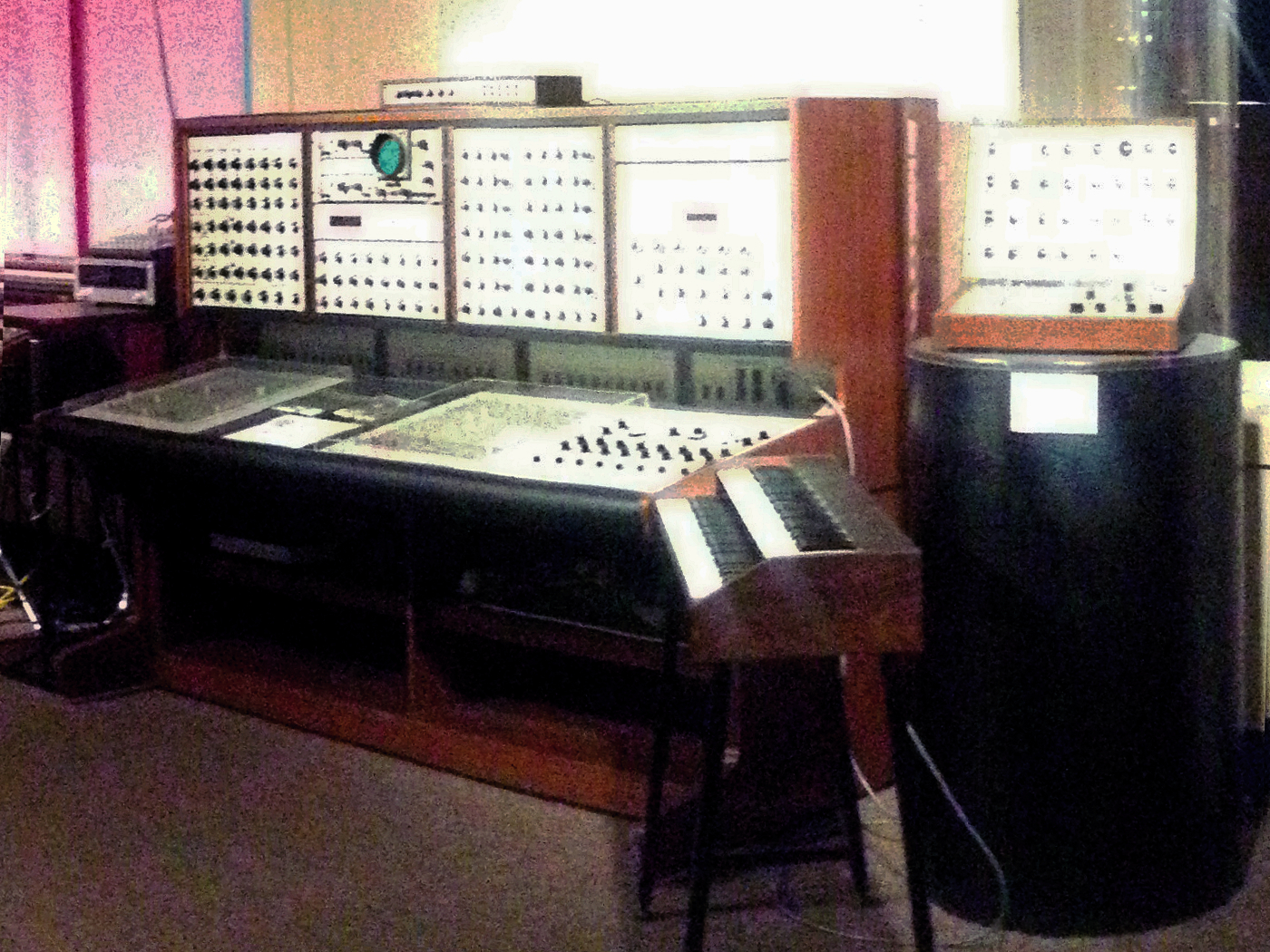 EMS Synthi 100 with dual manual keyboard, VCS3, National Music Centre "Johanna's 2013 Piano Recital @ National Music Centre"